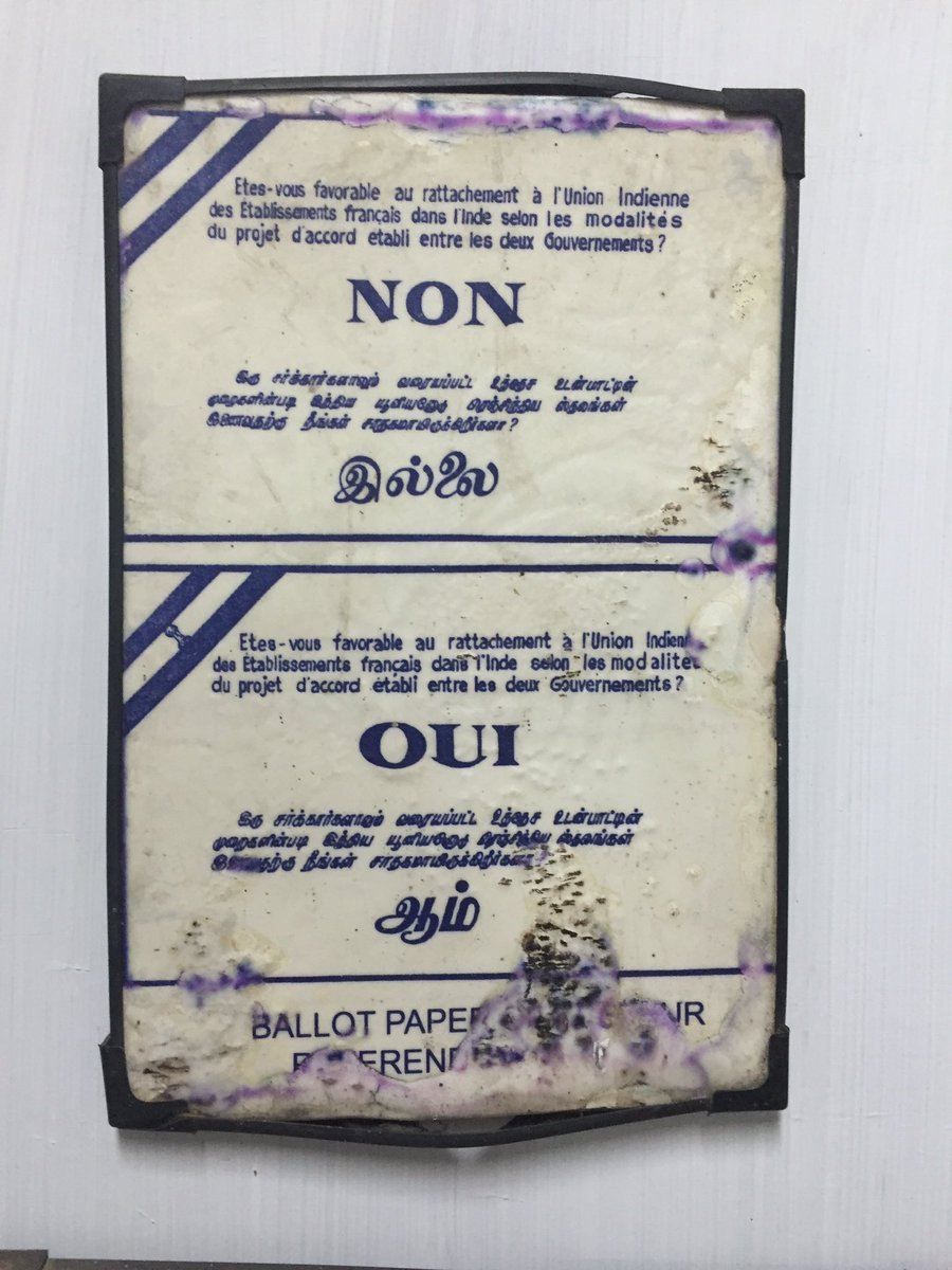 Kizhur